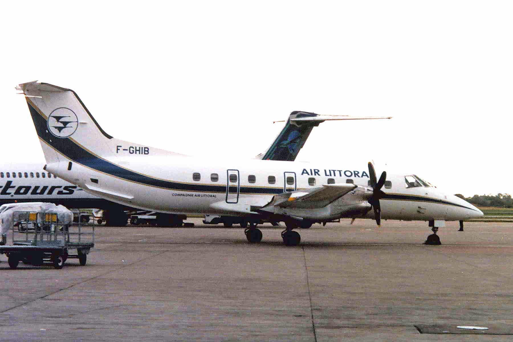 A picture of an airplane (name of it is on the file name).